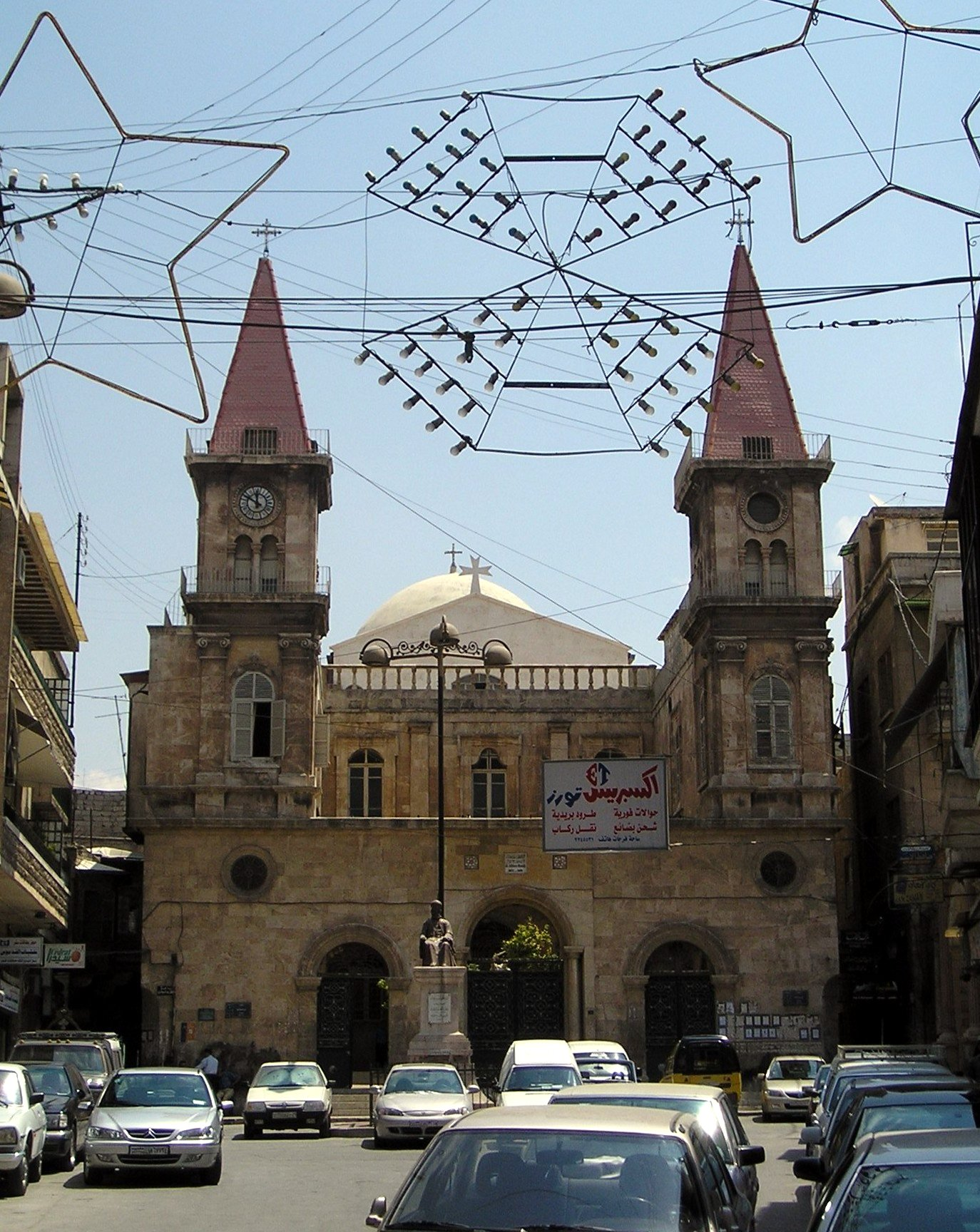 Aleppo, Syria - the Maronite cathedral in the Christian quarter Al-Jdeida.